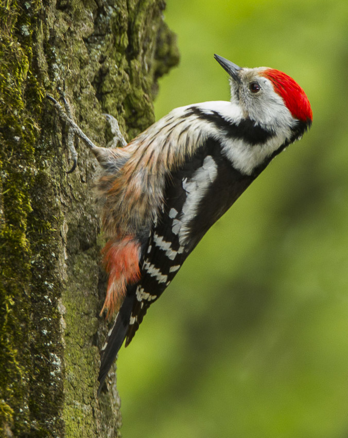 Middle-spotted Woodpecker - HungaryCS4E4424